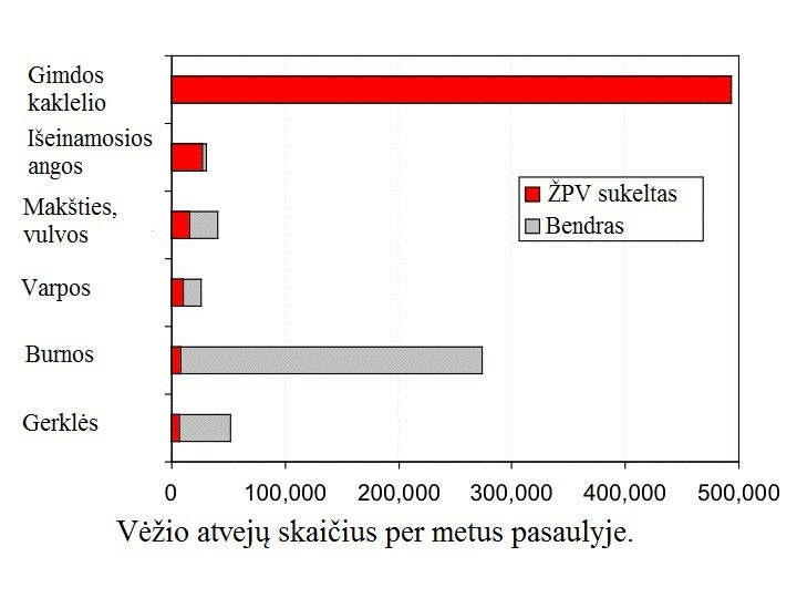 This diagram shows the amount of cancer cases per year and which percentage of cases is caused by human papillomavirus